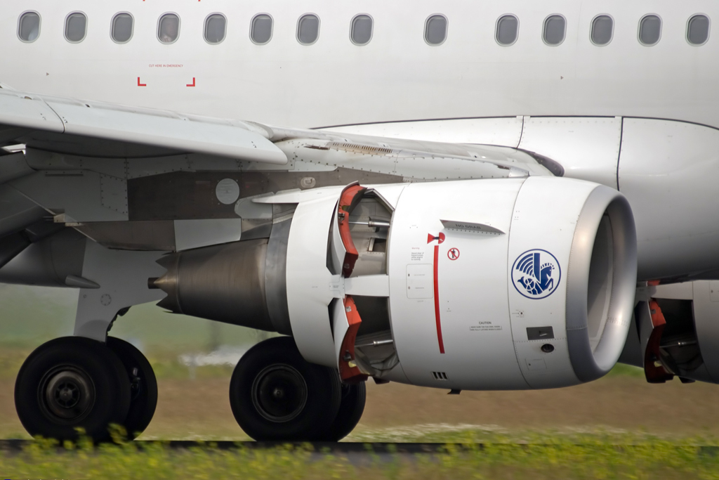 Engine detail of this Airbus A321-211. Nice the passenger in the red outline watching us!